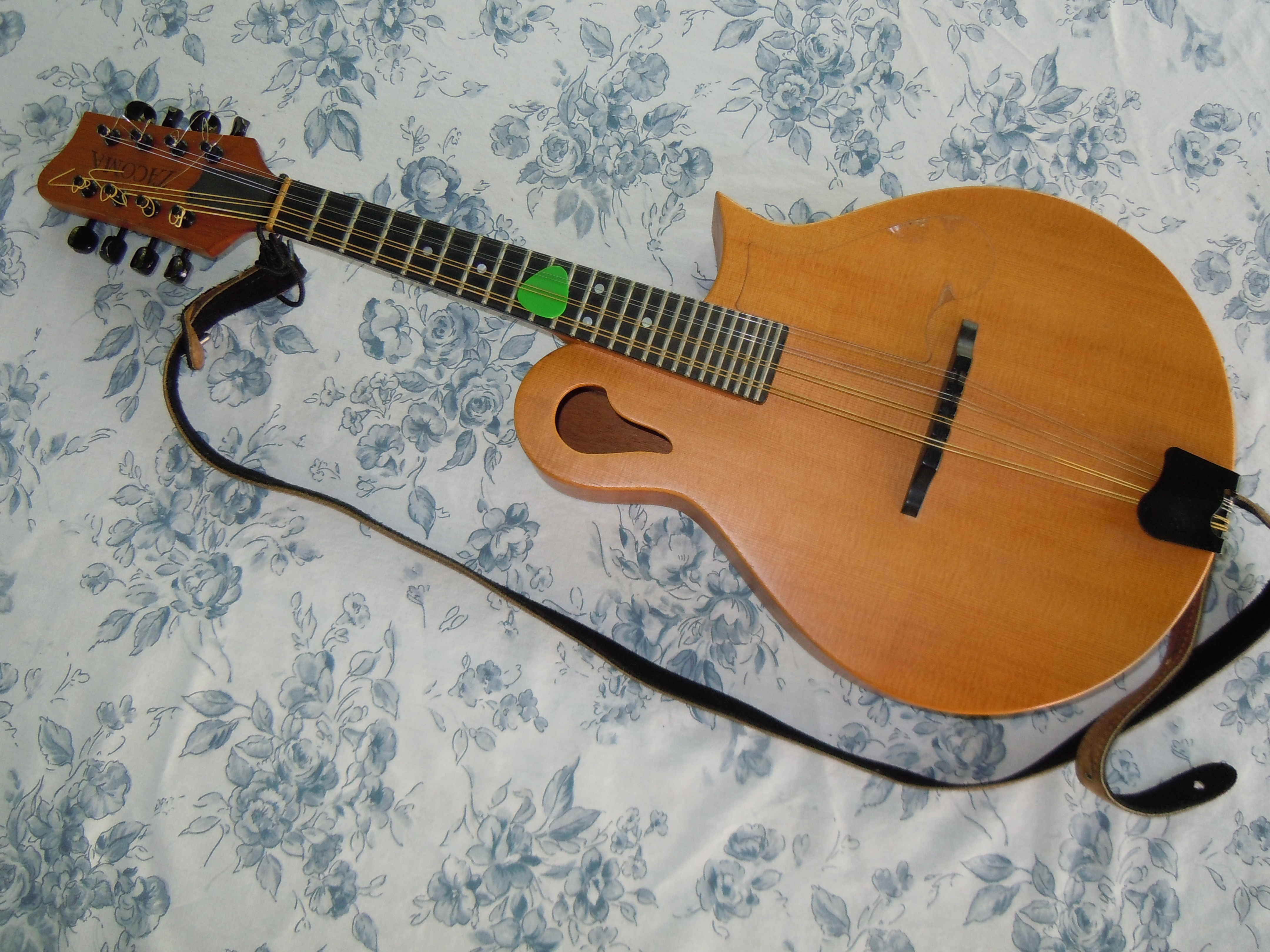 Tacoma M1 mandolin front 3